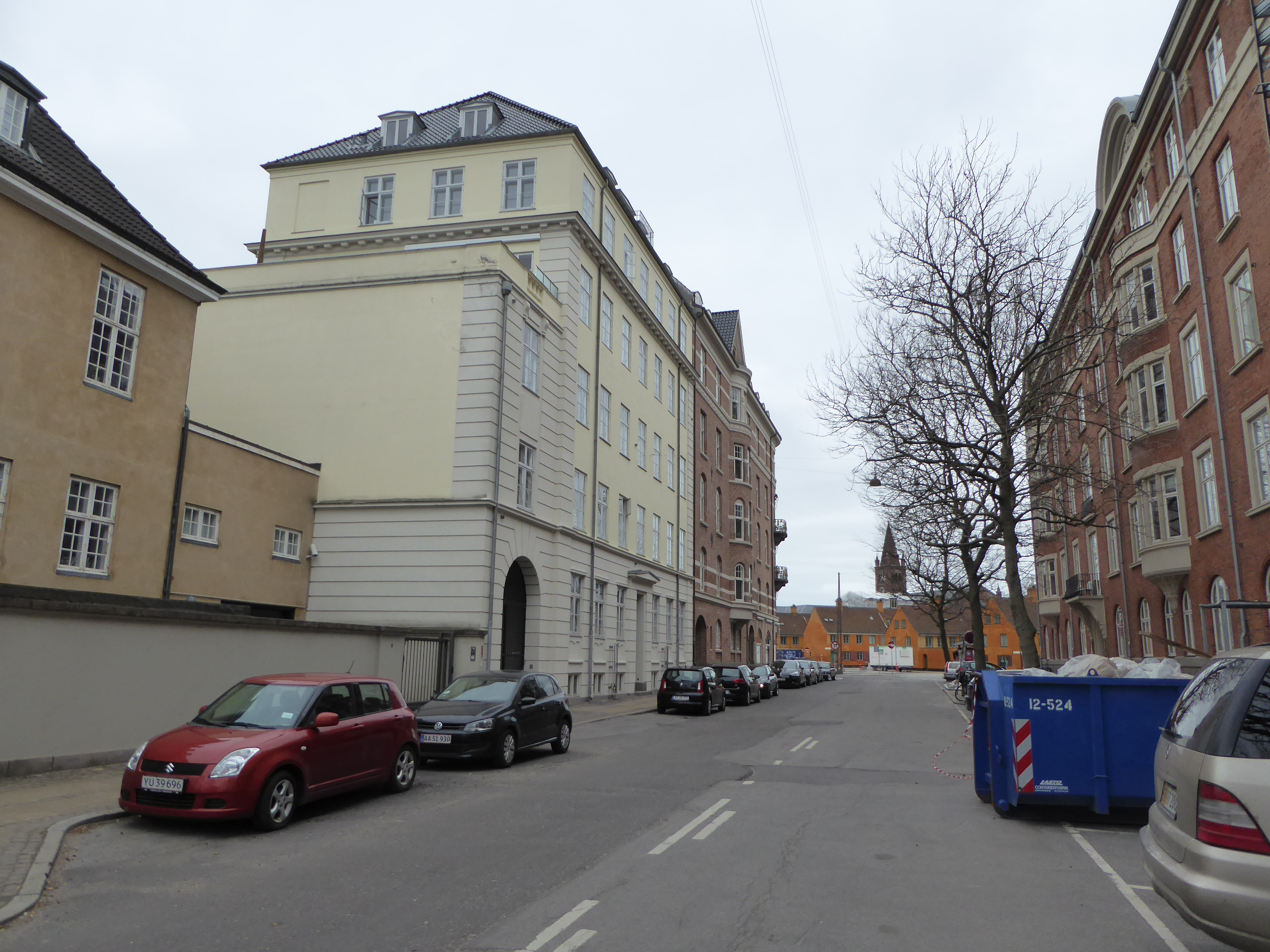 The street Jens Kofods Gade in Indre By in Copenhagen.